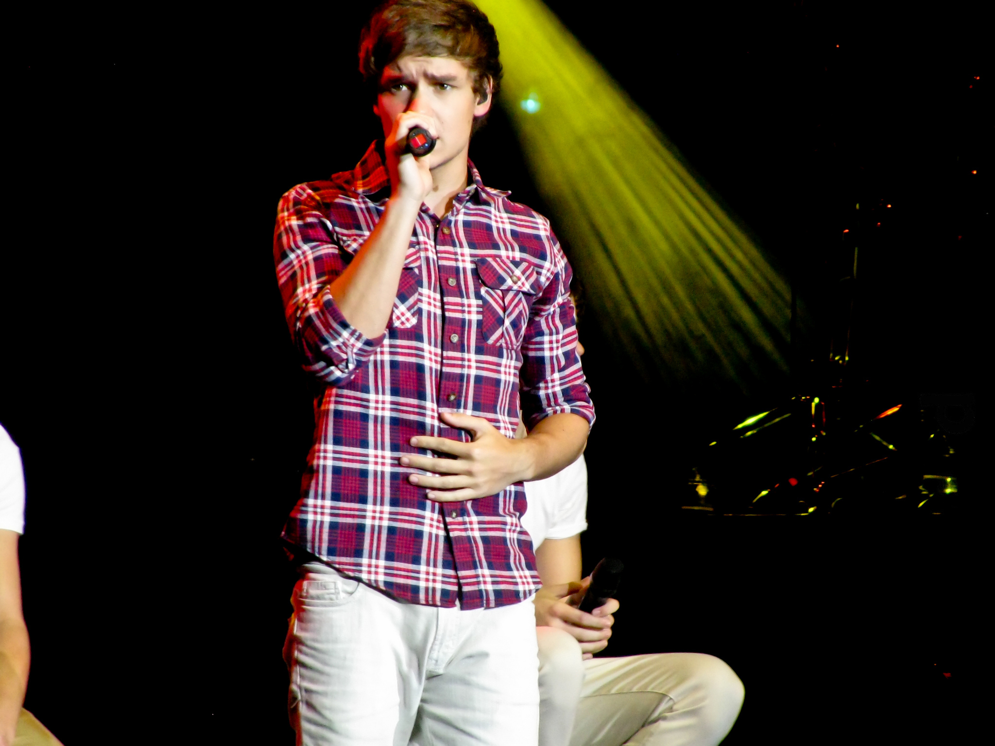 One Direction, Molson Canadian Amphitheatre, Toronto, Ontario, May 29, 2012